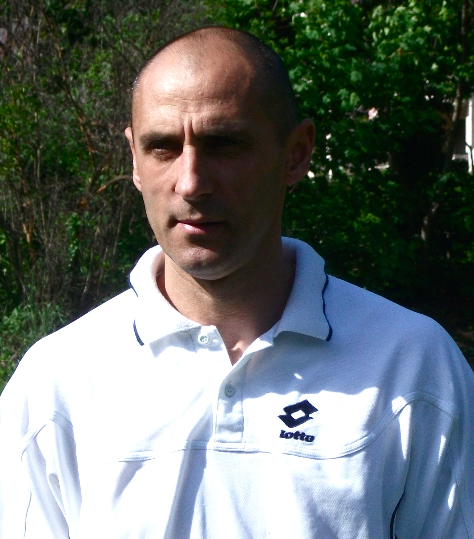 Foto, Graz Austria